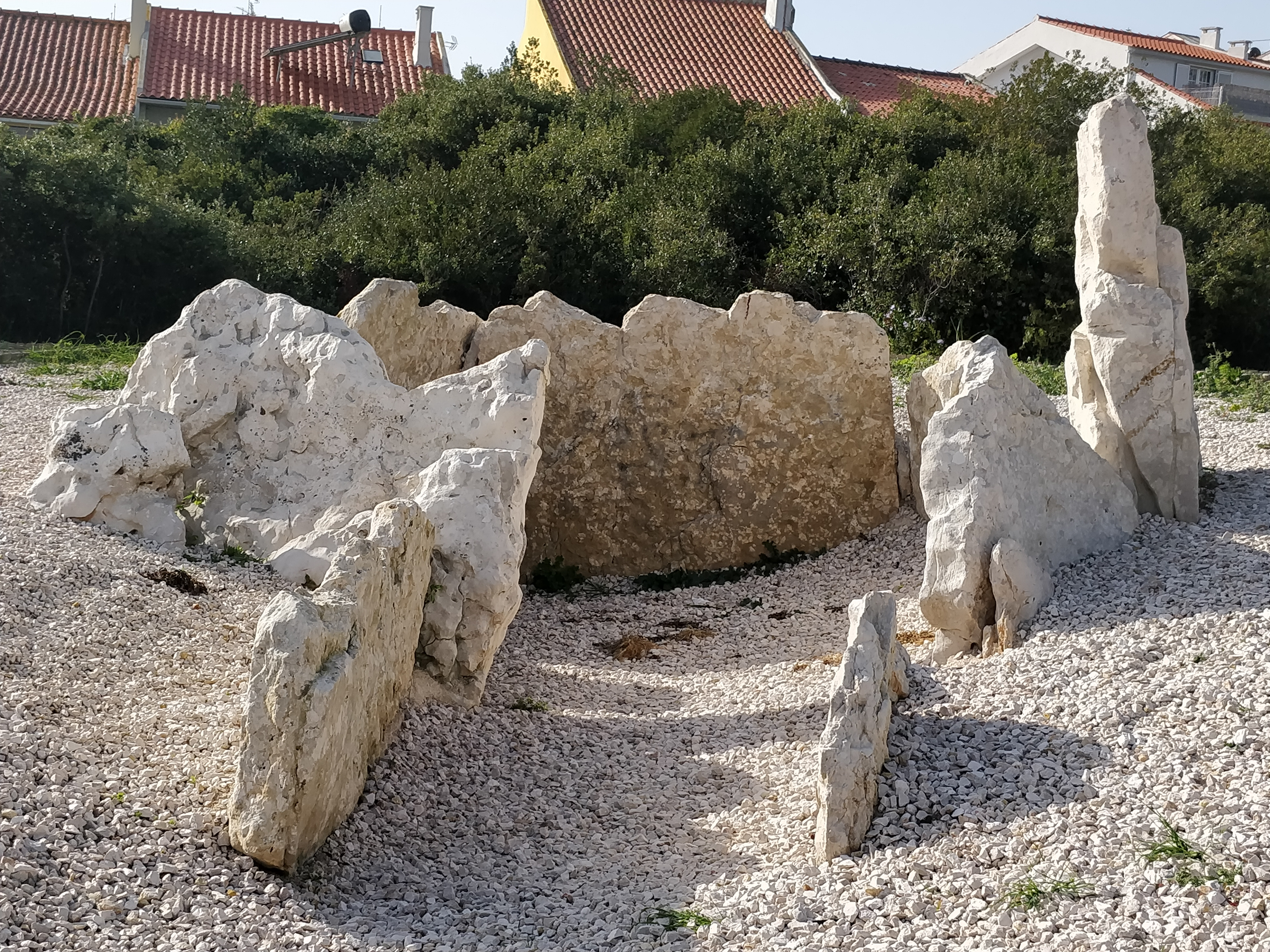 The Anta de Agualva was a neolithic dolmen or tomb situated in the parish of Agualva e Mira Sintra in the municipality of Sintra in the Lisbon District of Portugal.